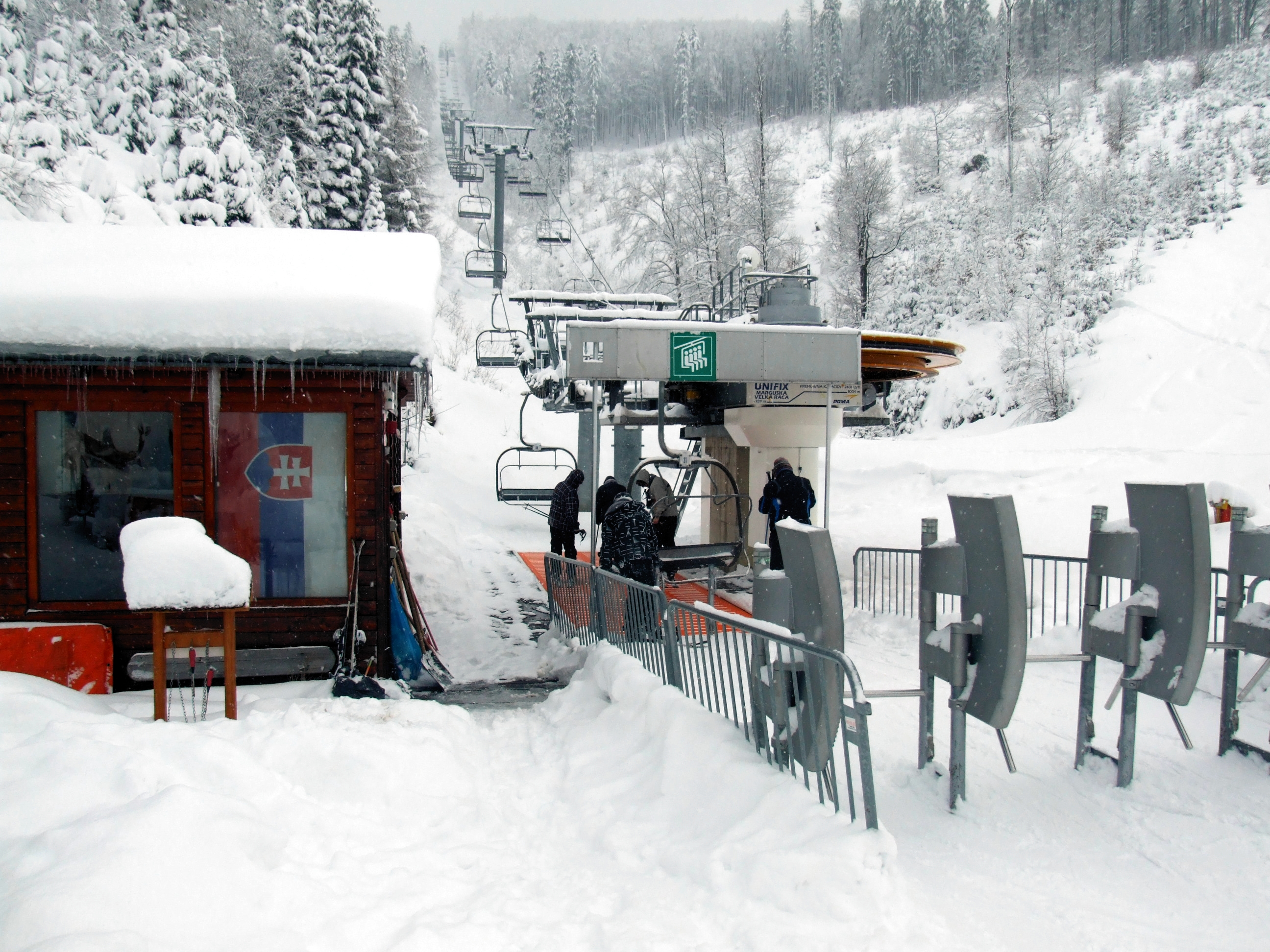 Snow Paradise Veľká Rača Oščadnica, Slovakia